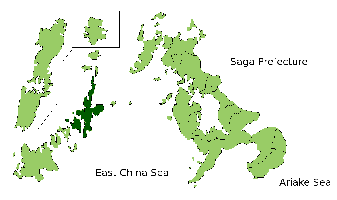 The location of Shinkamigoto in Nagasaki Prefectuur, Japan